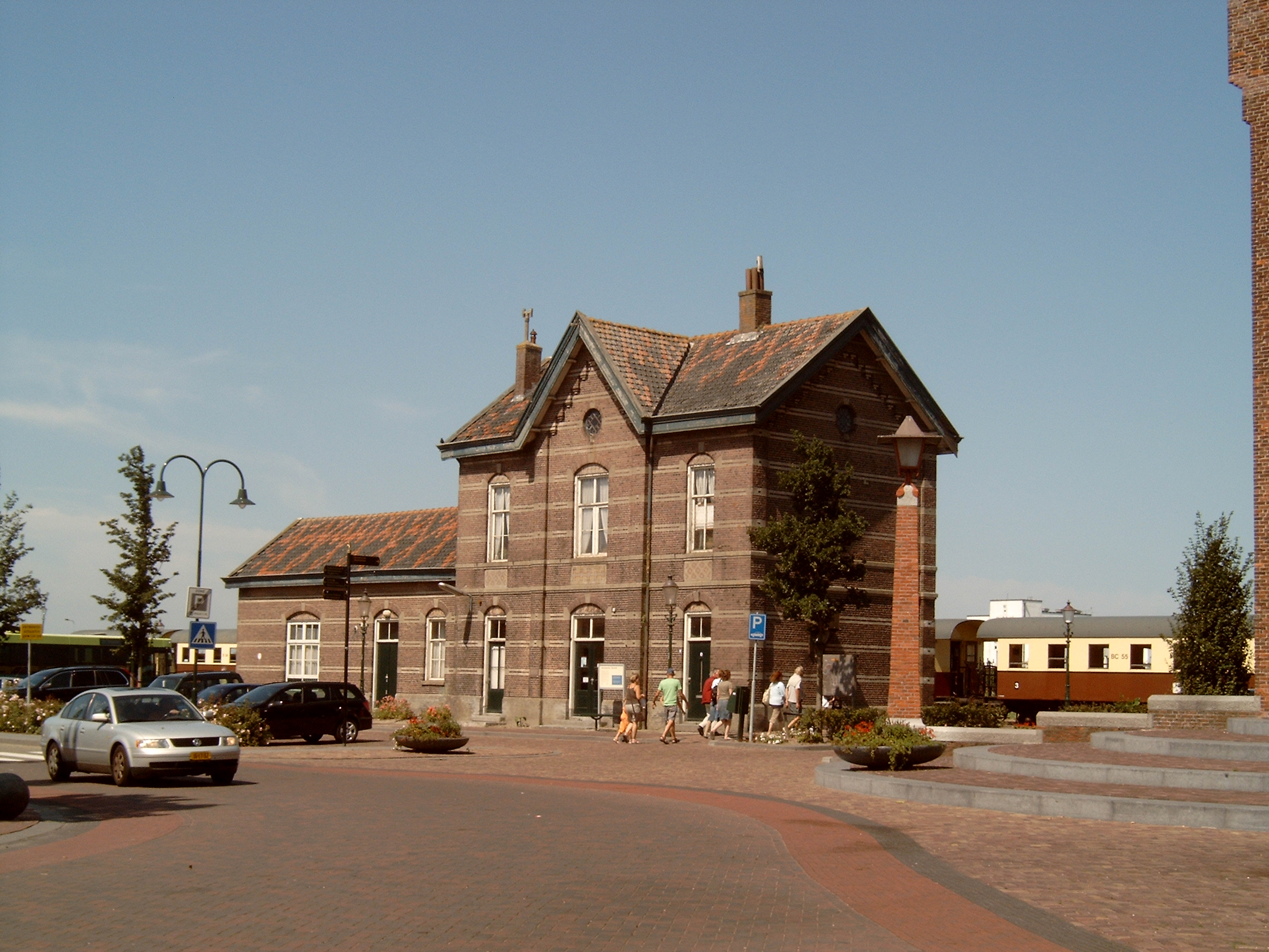 Medemblik, tram station